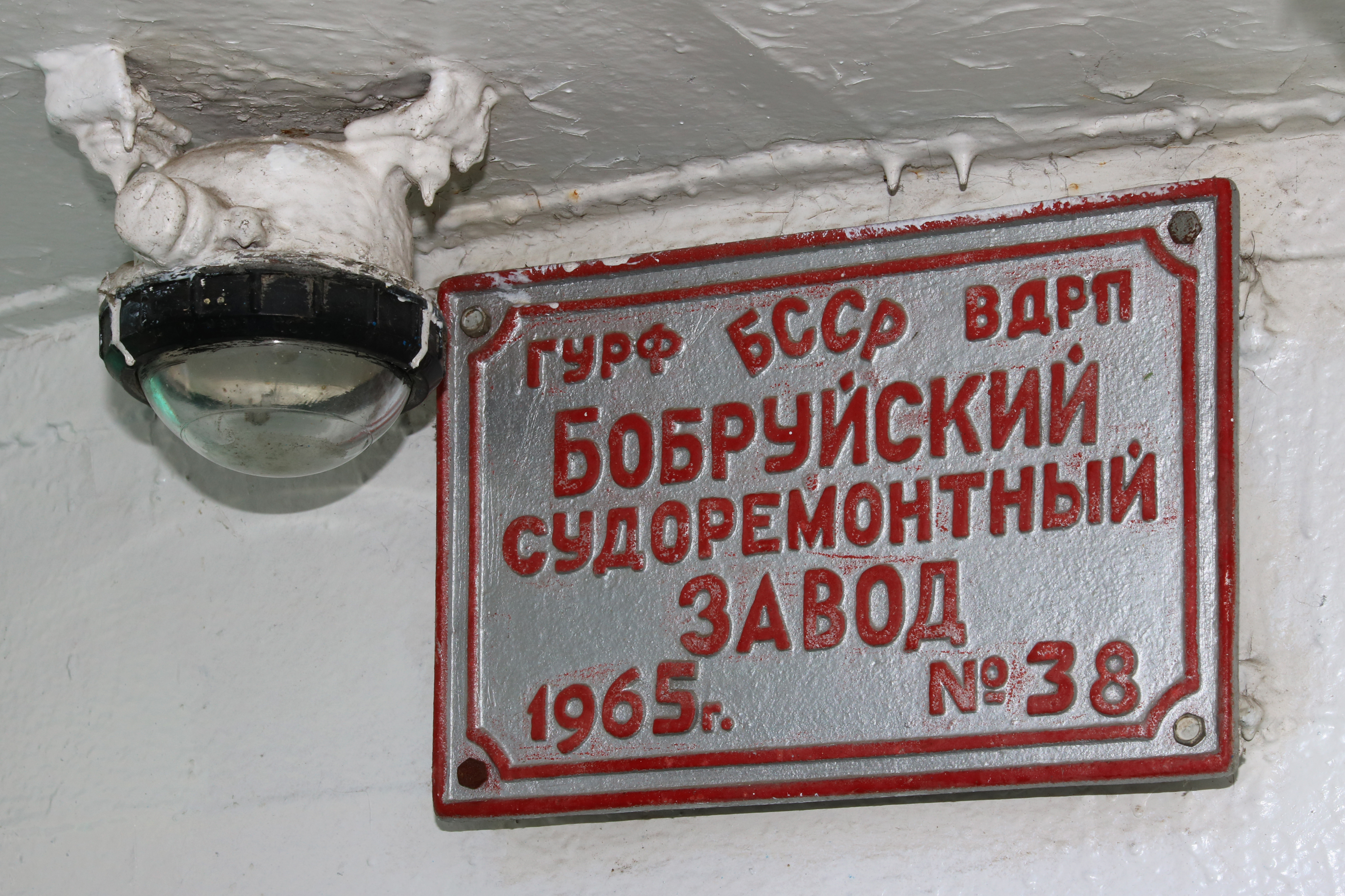 The builder plate from the "Lyalya Ratushna" ship. Ukraine, Vinnytsia